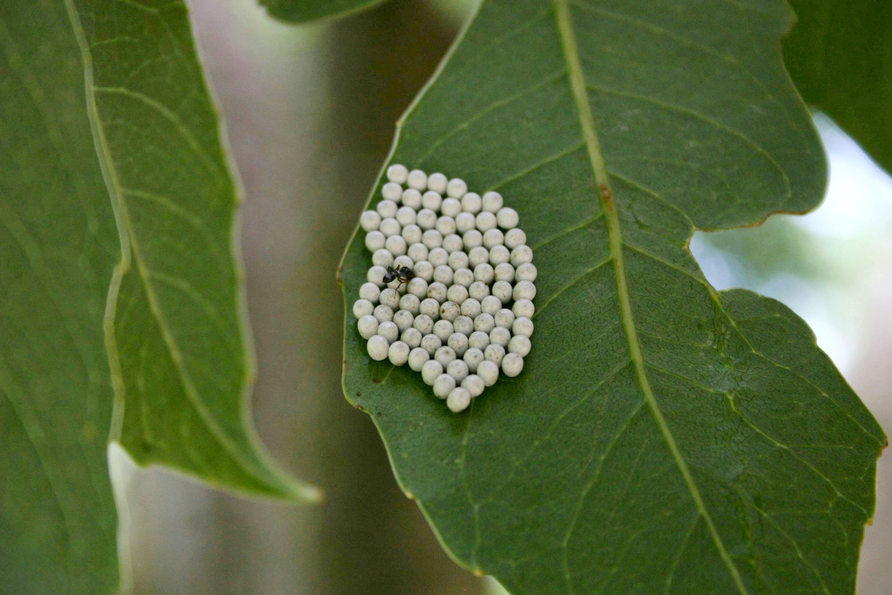 Bunaea alcinoe eggs on Cussonia sphaerocephala - Johannesburg garden